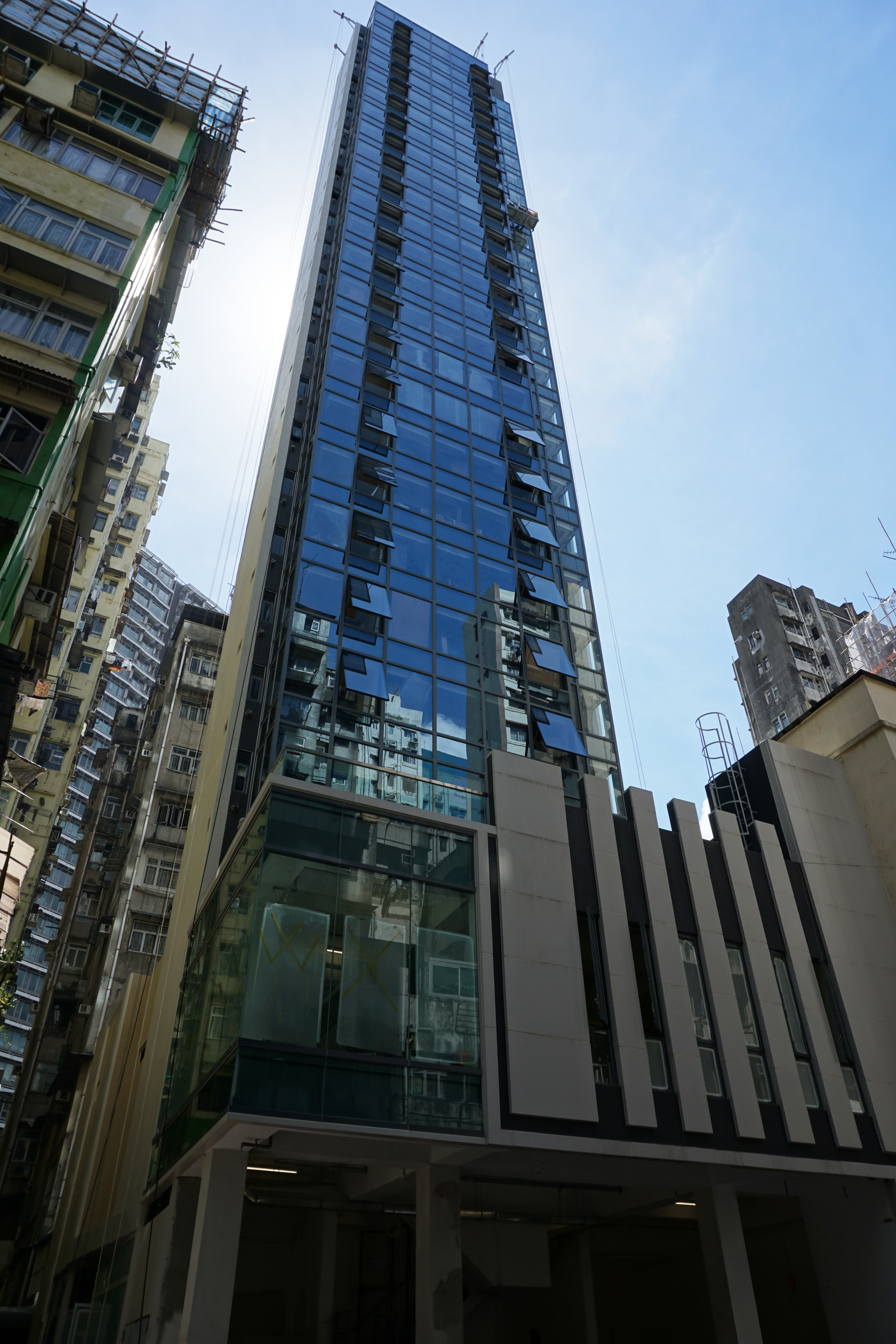 The Paseo in Jordan, Hong Kong.